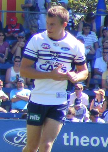 Jason Davenport warming up in a preseason game for Geelong